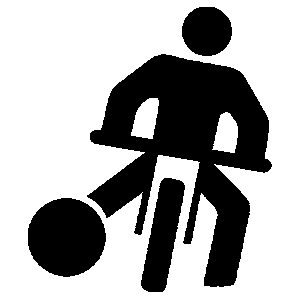 Pictogram MotoBall